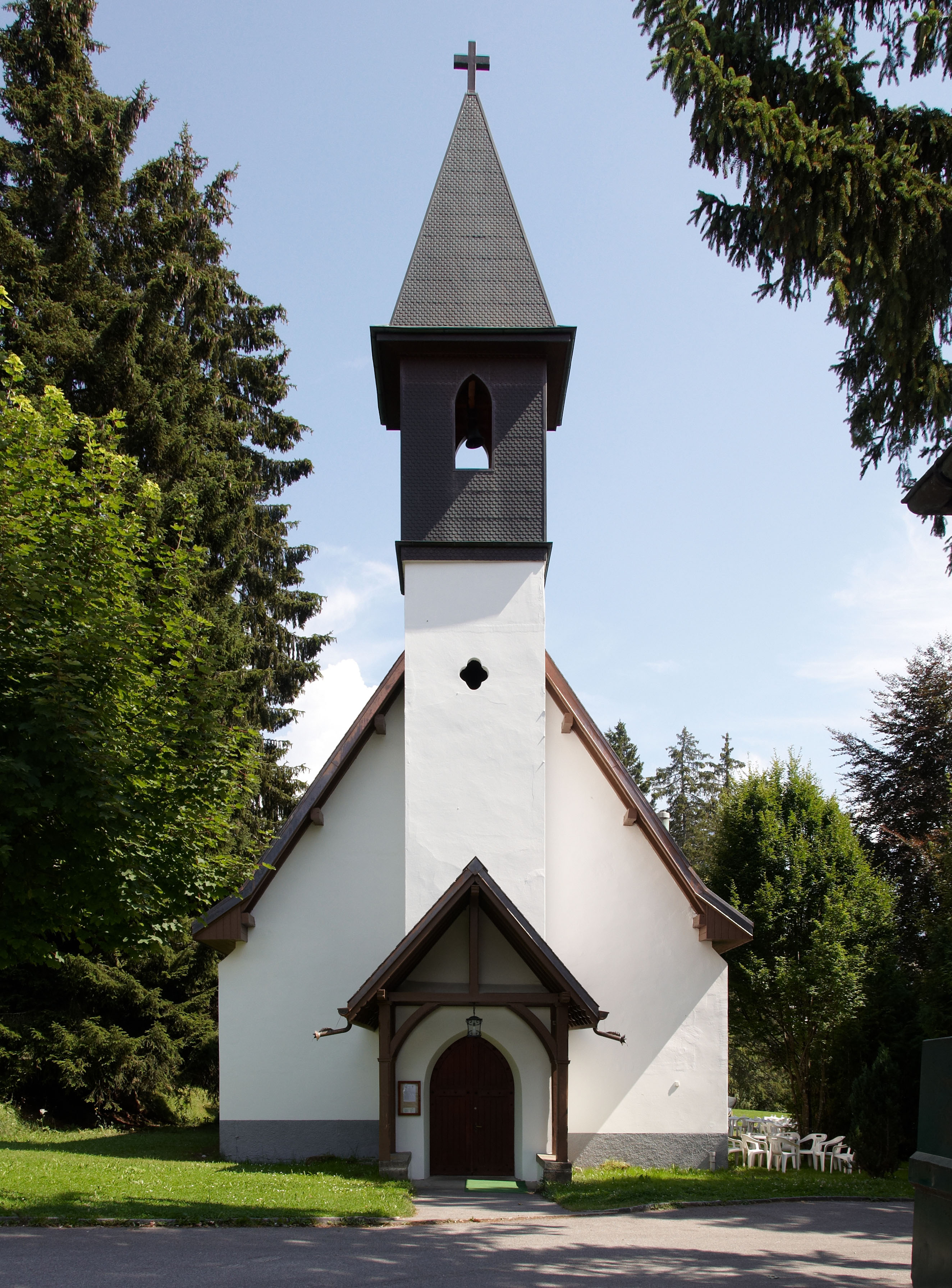 Aiglon Chapel for the Villars English Church